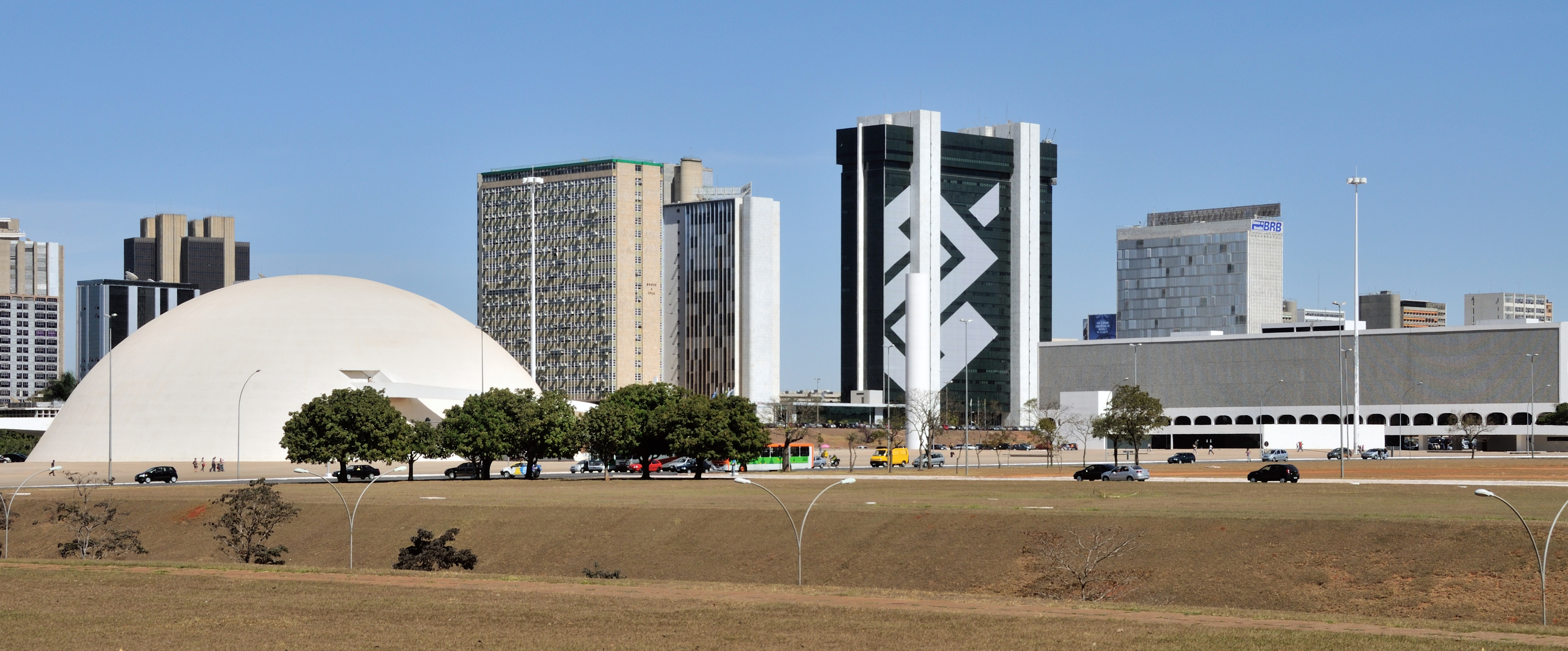 Brasilia: National Museum Honestino Guimarães (left) and National Library (right).